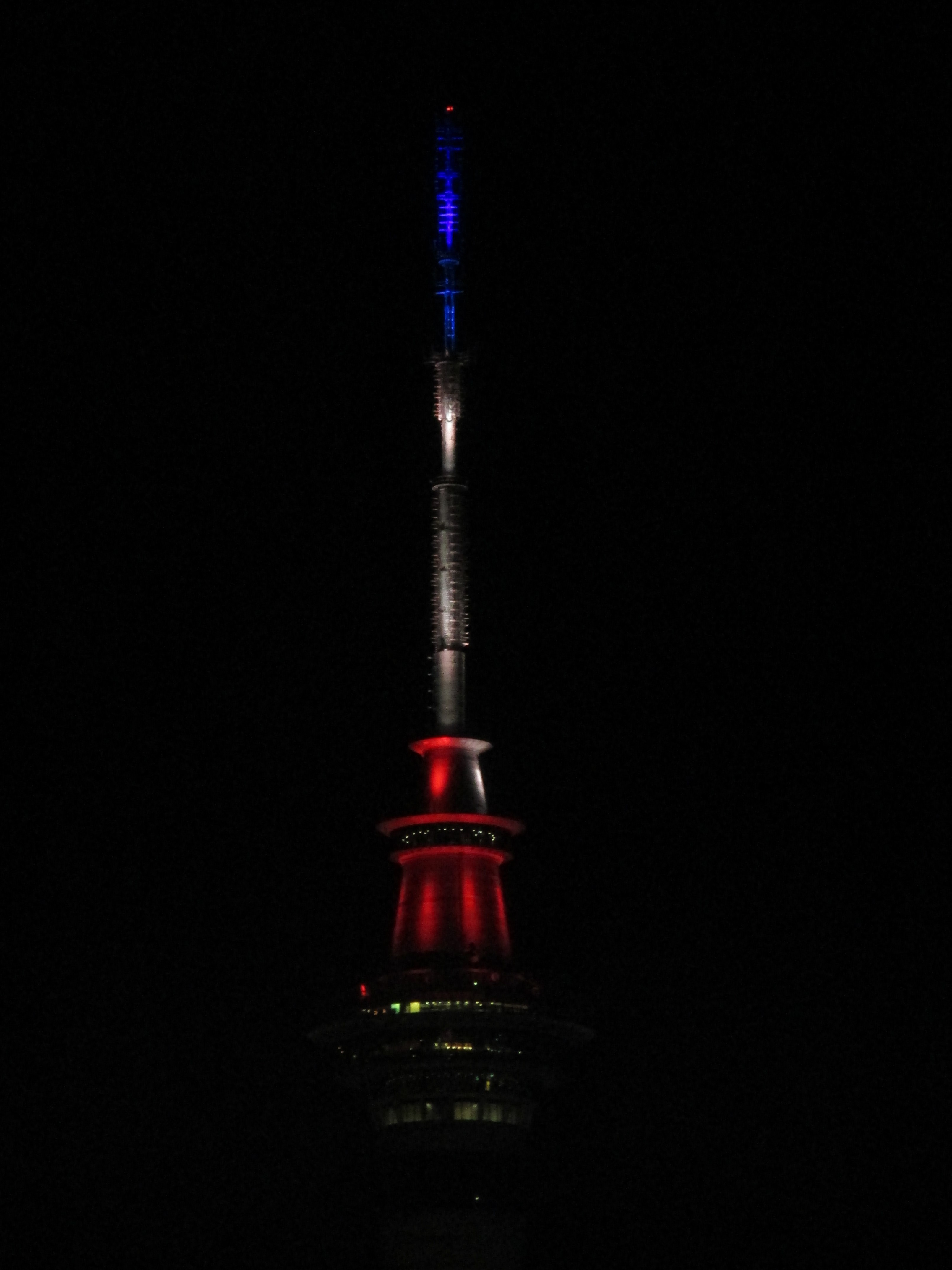 The Sky Tower in Auckland, New Zealand displays the colours of France the night after the attacks in Paris on 13 November 2015 (UTC). The day was 14 November 2015 in New Zealand. View is from the sun deck of the YHA Auckland City.